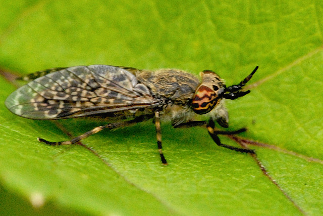 Haematopota crassicornis from Commanster, Belgian High Ardennes .